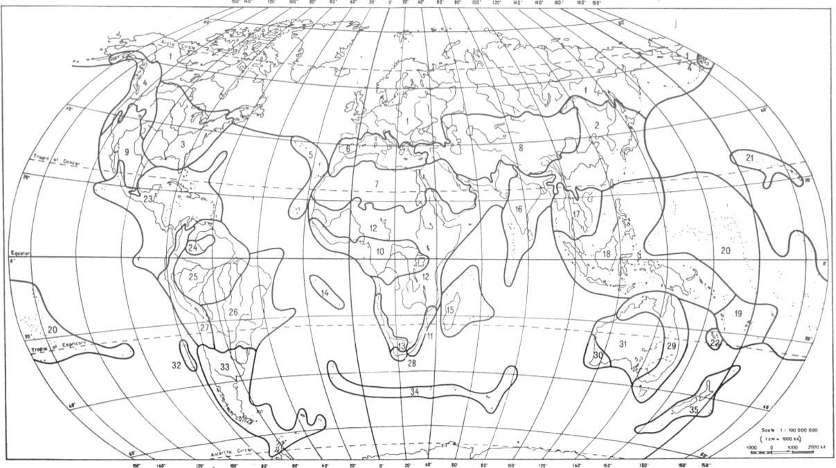 Floristic Regions of the world (Takhtajan 1986)